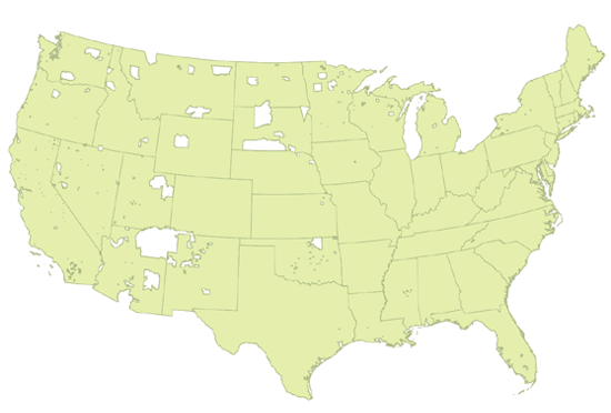 Map of the United States, excluding the land of the American Indian reservations, which are themselves sovereign